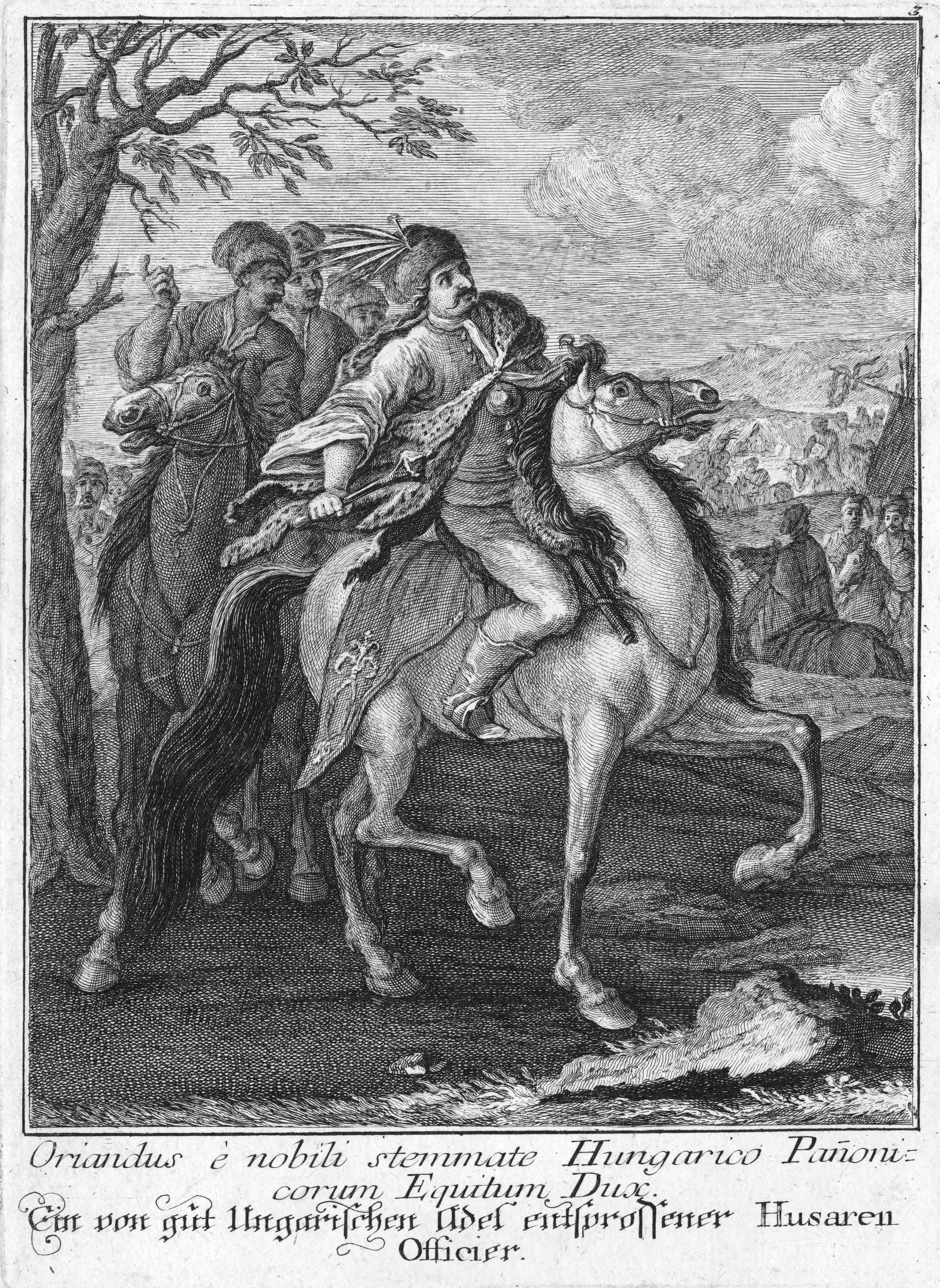 Oriandus è nobili stemmate Hungarico Panoni corum equitum dux. 2nd of 7 copper-engr. by and after Fridrich, of soldiers (in Latin and German); mounted nobleman leading troop of cavalry in mountain landscape.